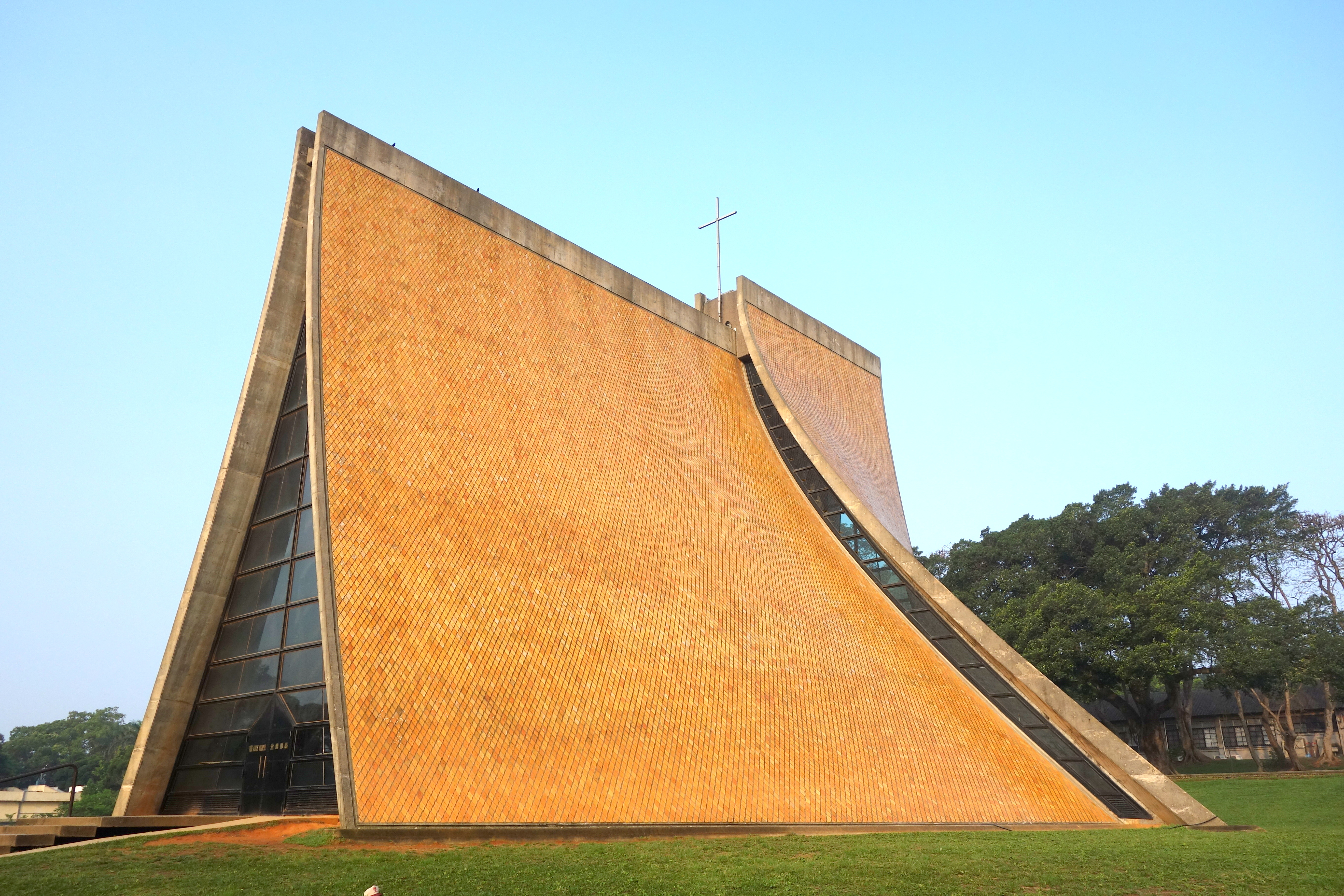 Luce Memorial Chapel - Tunghai University, Taichung, Taiwan.